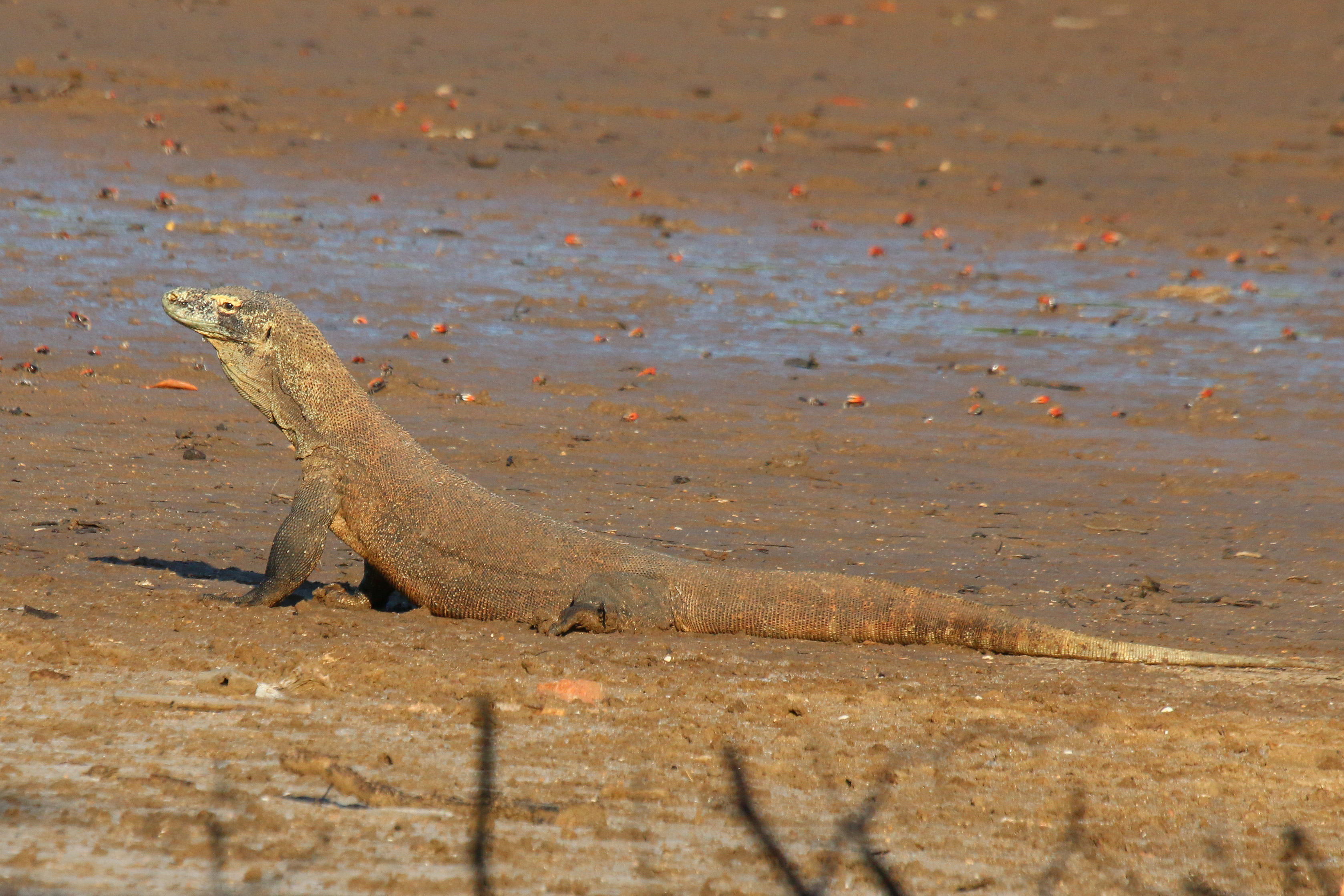 Komodo dragon (Varanus komodoensis), Rinca, Indonesia